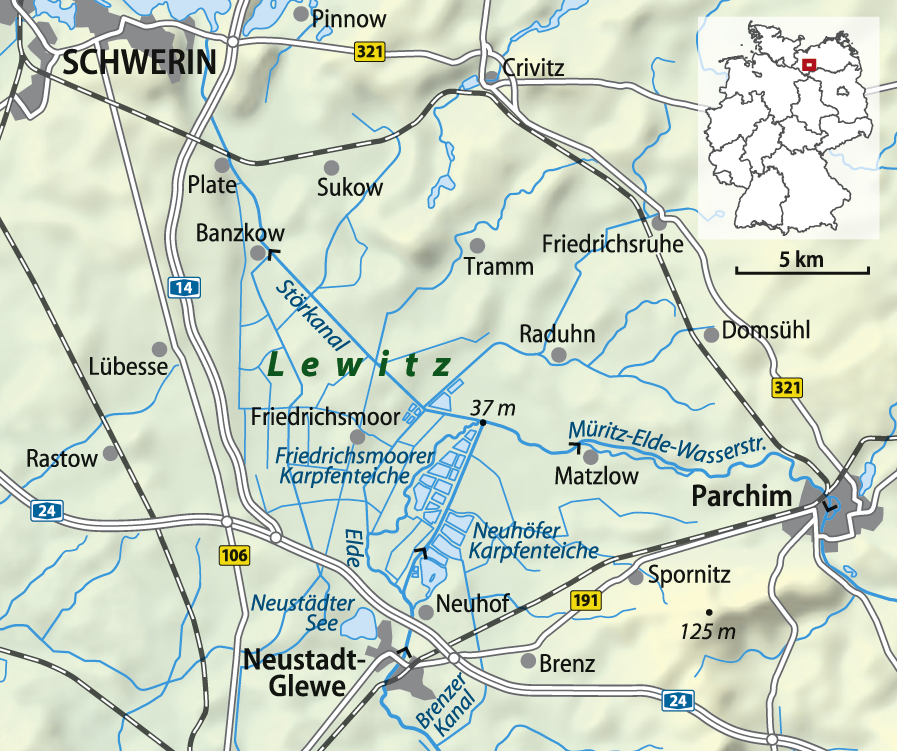 Map of the Lewitz in Mecklenburg-Vorpommern, Germany